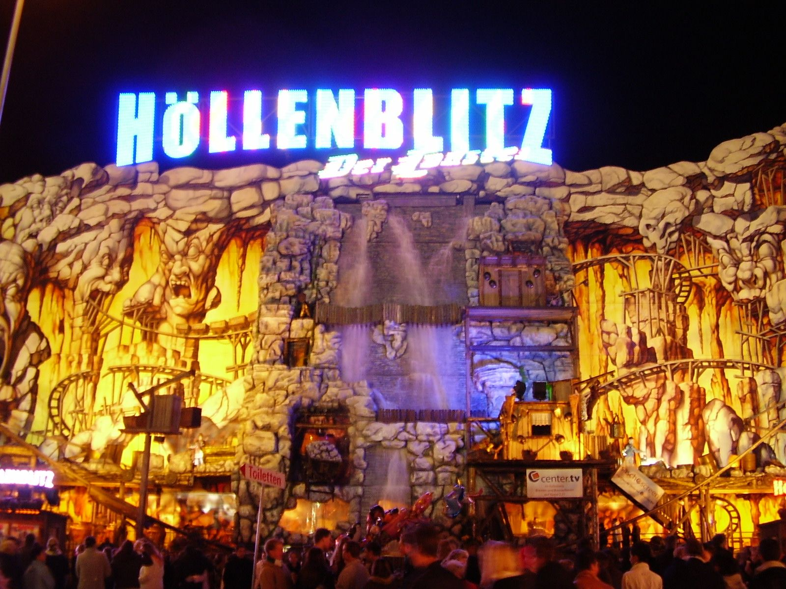 Mine-railway in Freimart Bremen